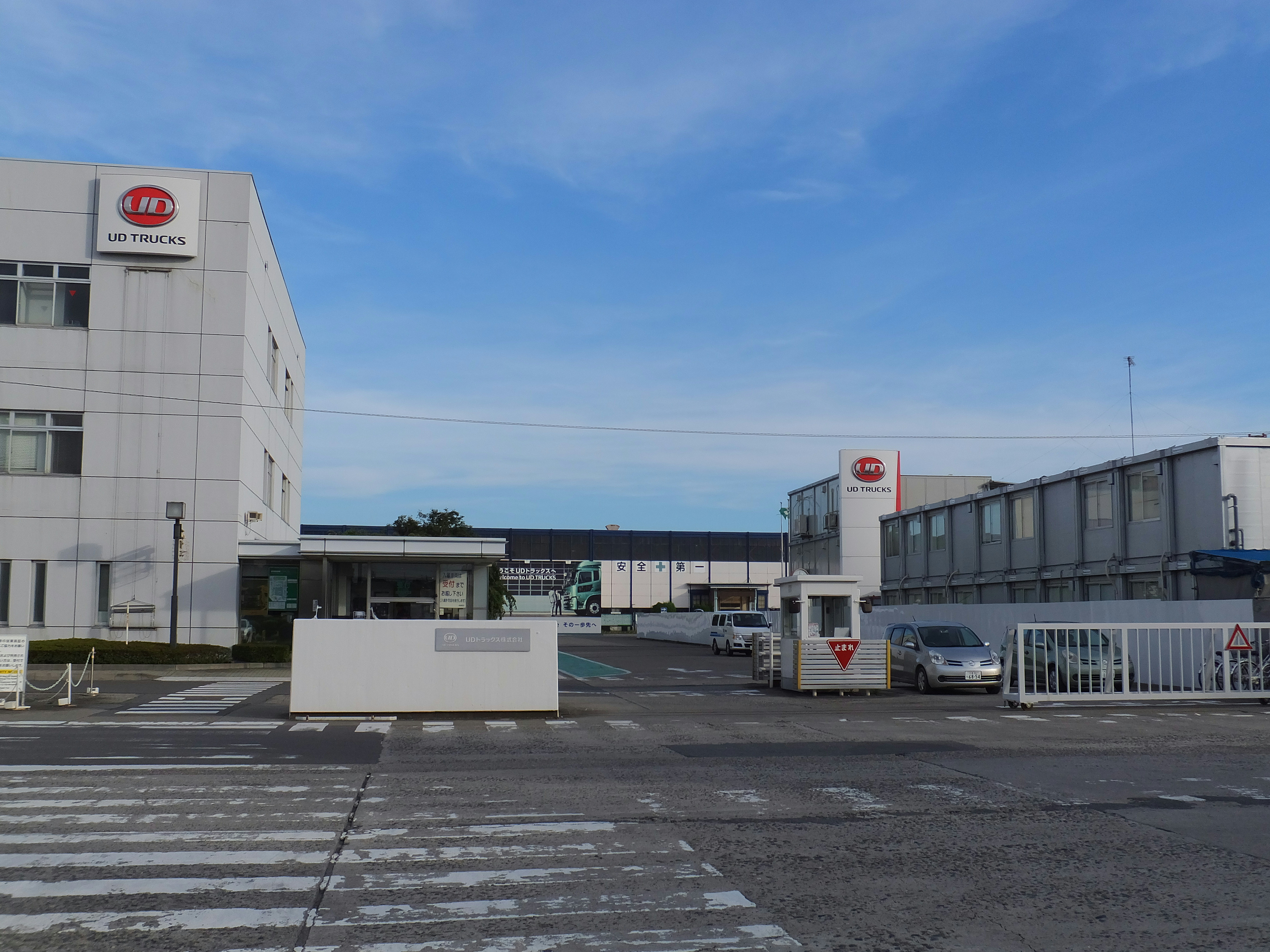 Main gate at the UD Trucks Corporation headquarters in Ageo City, Saitama Prefecture, Japan